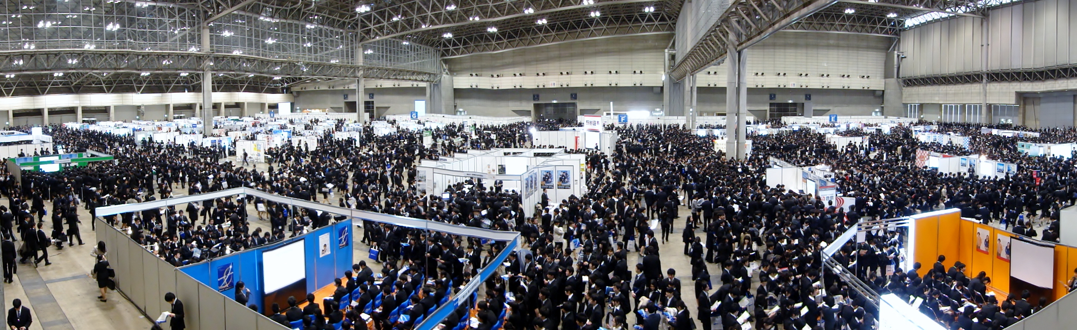 Company Information Session in Japan